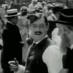 Lionel Barrymore in a scene from the movie The Painted Lady (1912, directed by David Wark Griffith).